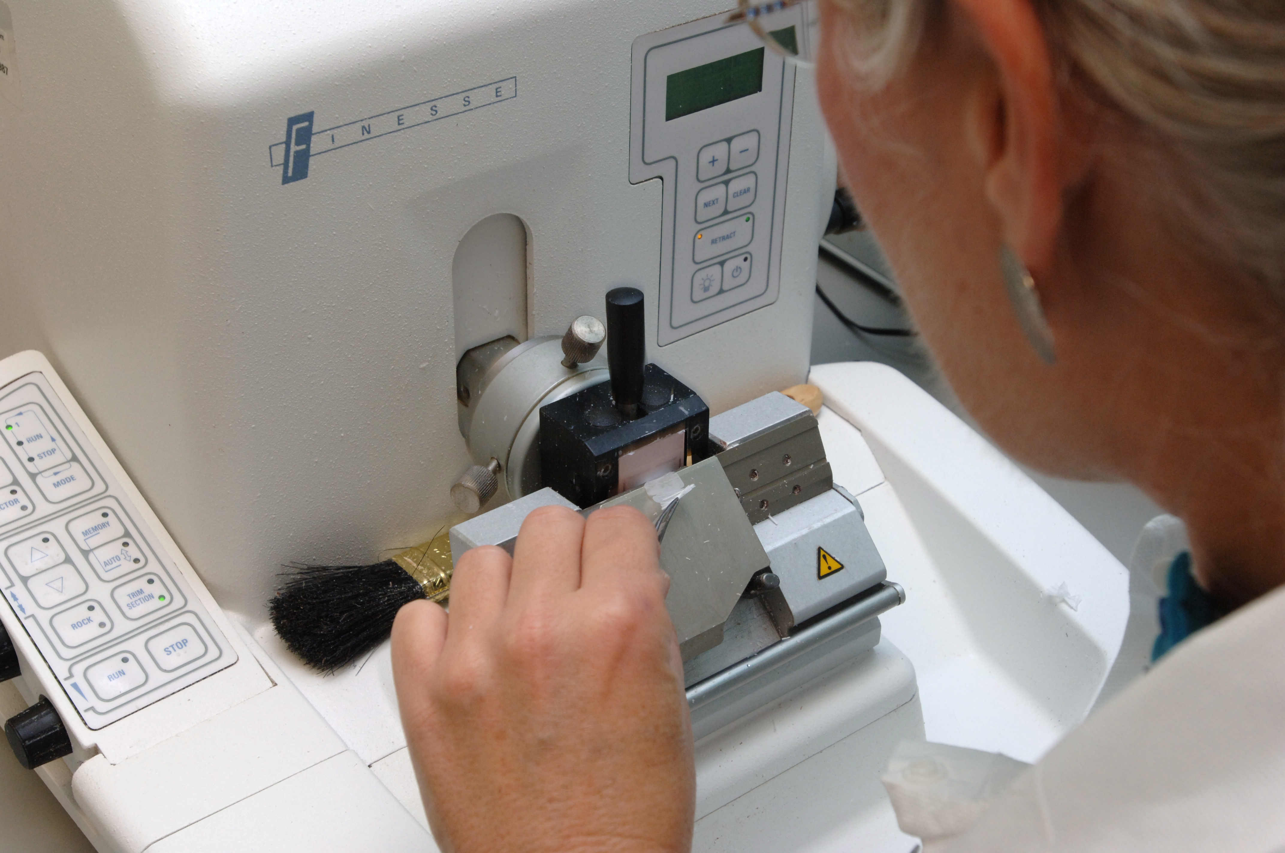 The microtome is used to cut a ribbon of 5-micron-thick sections from the paraffin block. Five microns is 1/200 of a millimeter